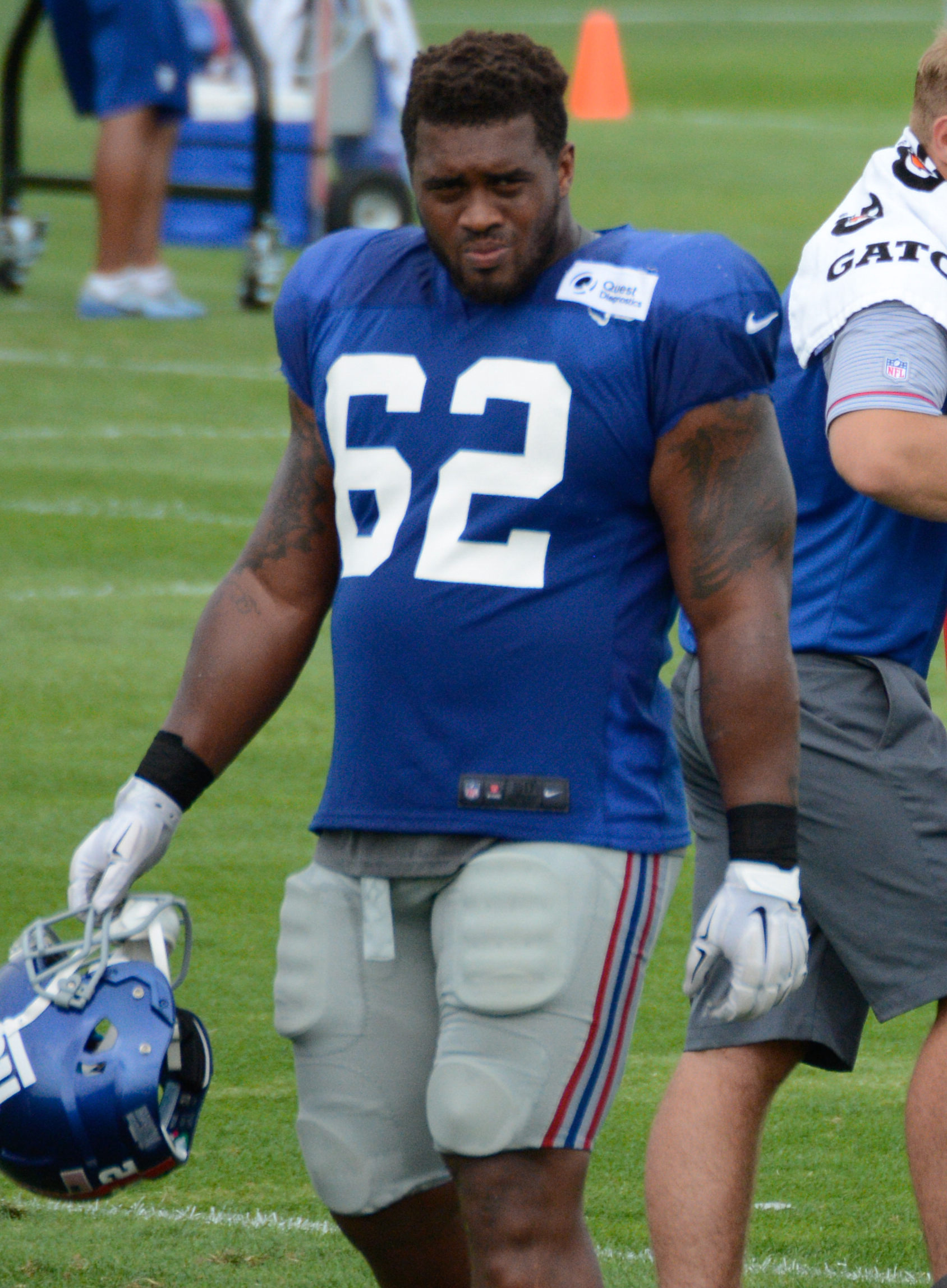 New York Giants training camp